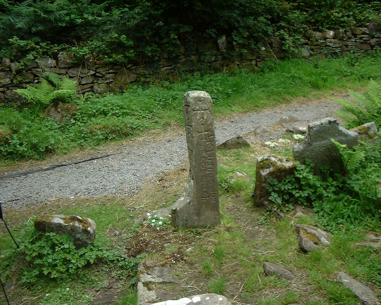 tombstone of Lugnad, on an island in Lough Corrib. Fifth centurn. Possibly the oldest Christian inscription, other than the Catacombs